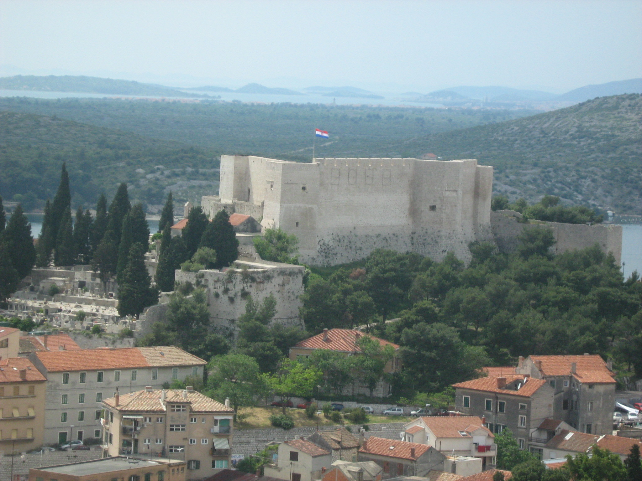 St Michael's Fortress